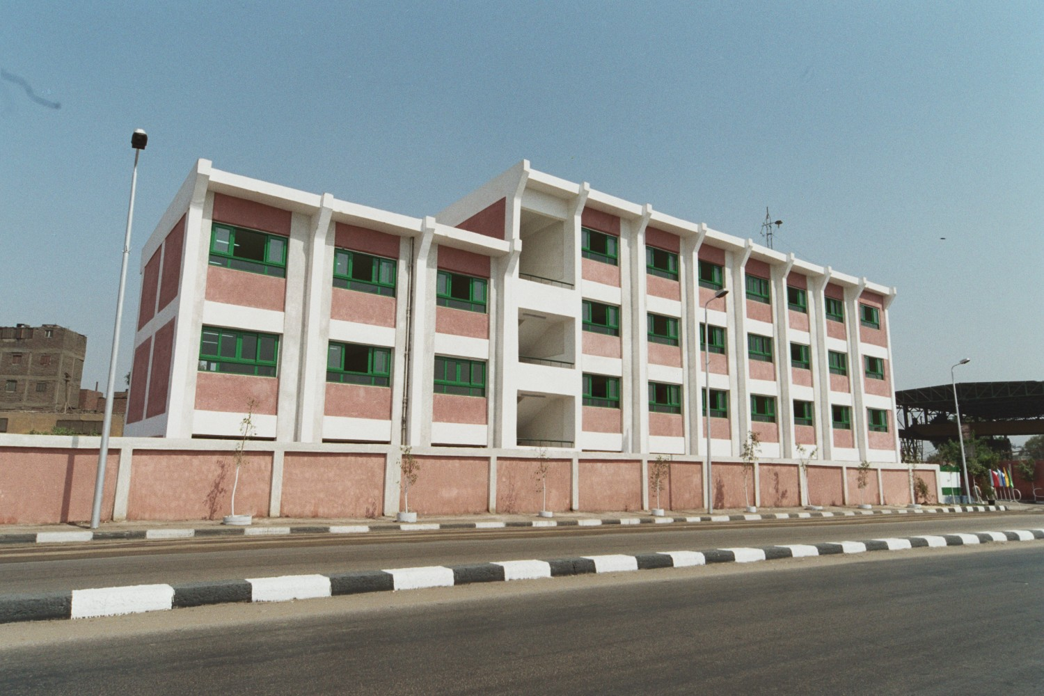 A USAID-funded project in Egypt identified and remediated a primary school with excessively high levels of lead.